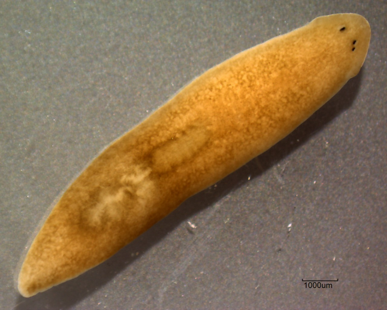 Fixed and preserved specimen of Dugesia aenigma with a supernumerary eye (right side of the head).